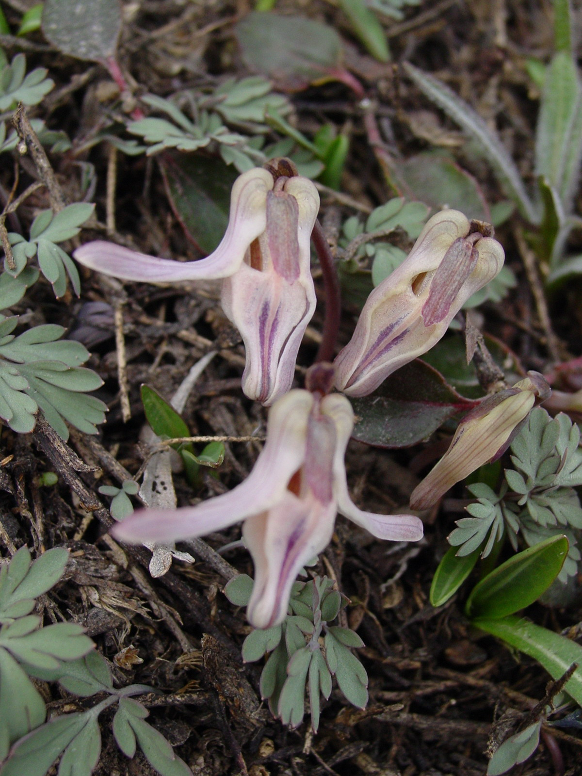 Dicentra uniflora. City of Rocks National Preserve, Idaho, USA.